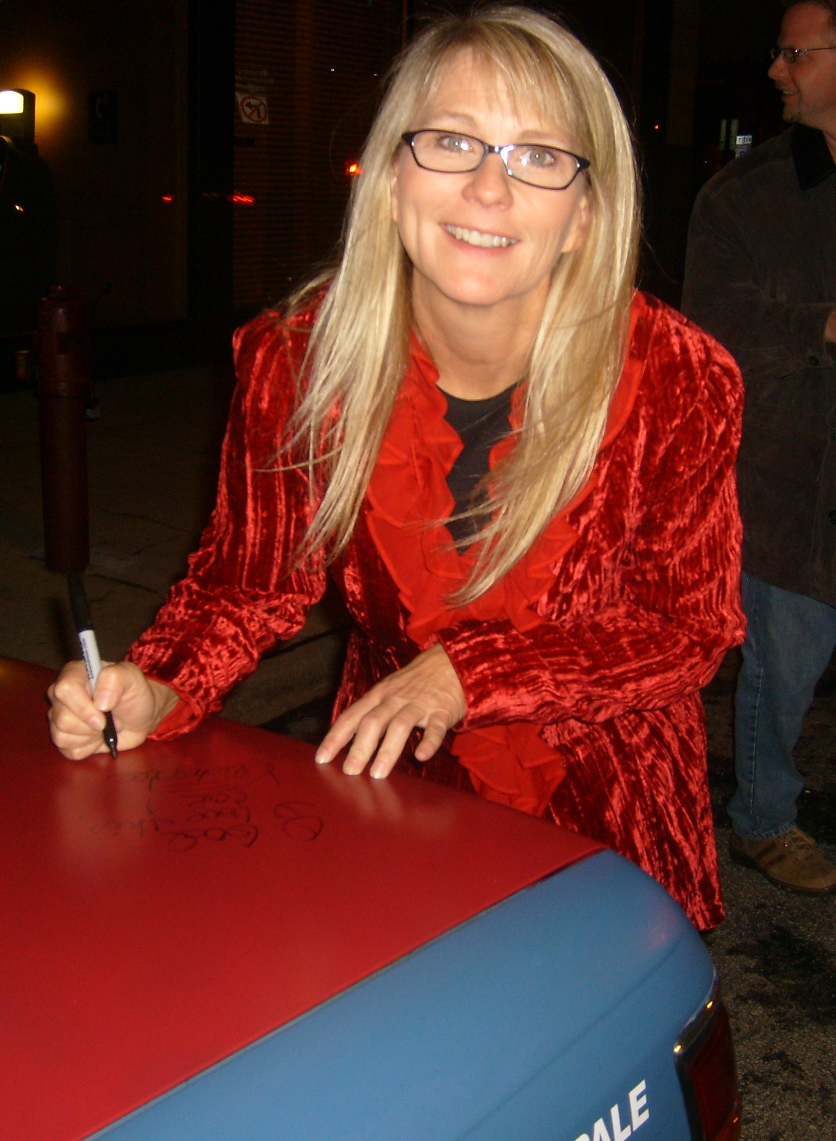 Depicted person: Kristi Lee – American radio personality